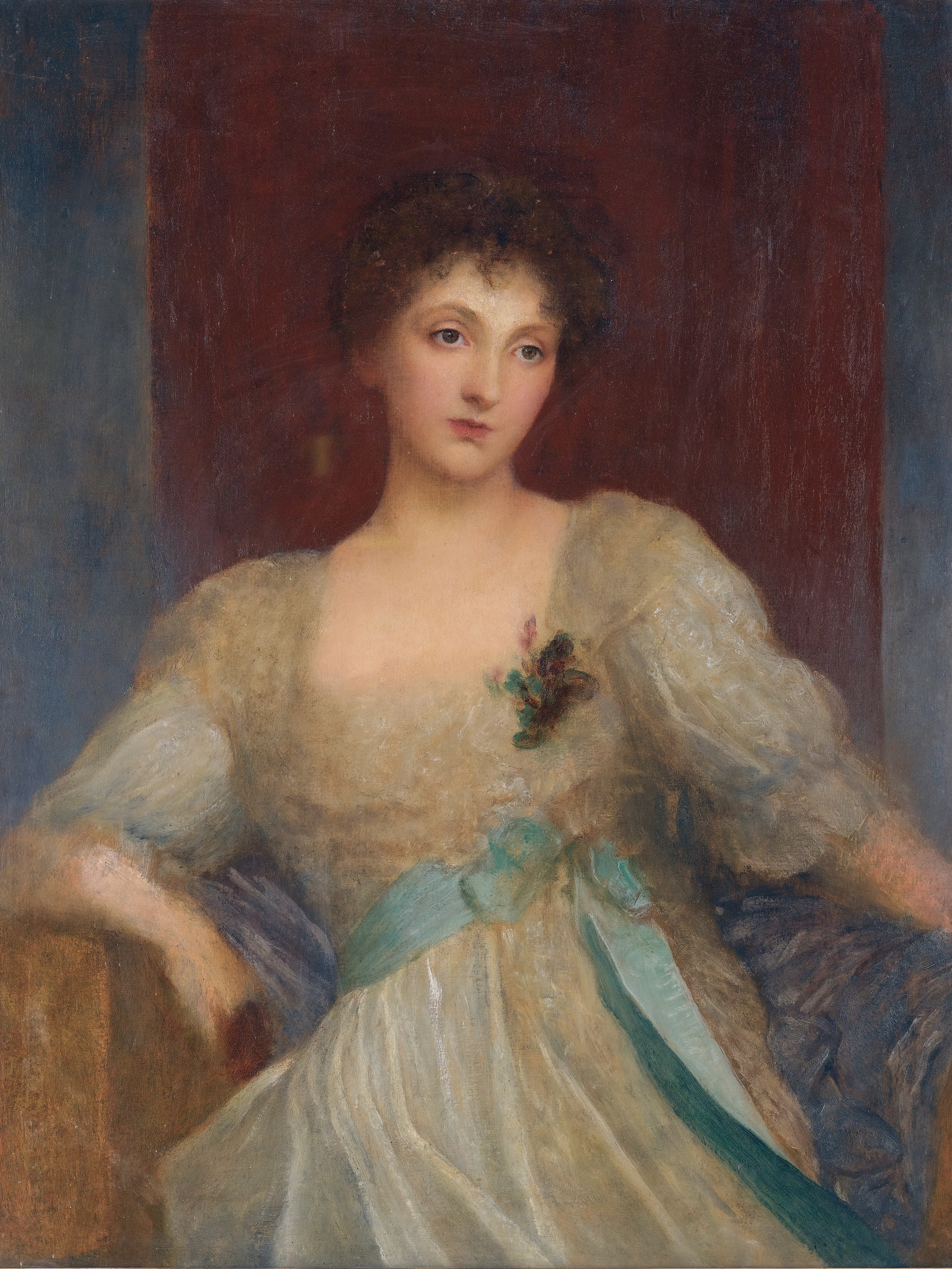 Portrait of Norah Bourke